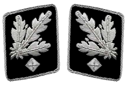 Rang insignia of the SS/Waffen-SS, here universal collar patches to the General’s rank “SS-Gruppenfuehrer” until 1945.